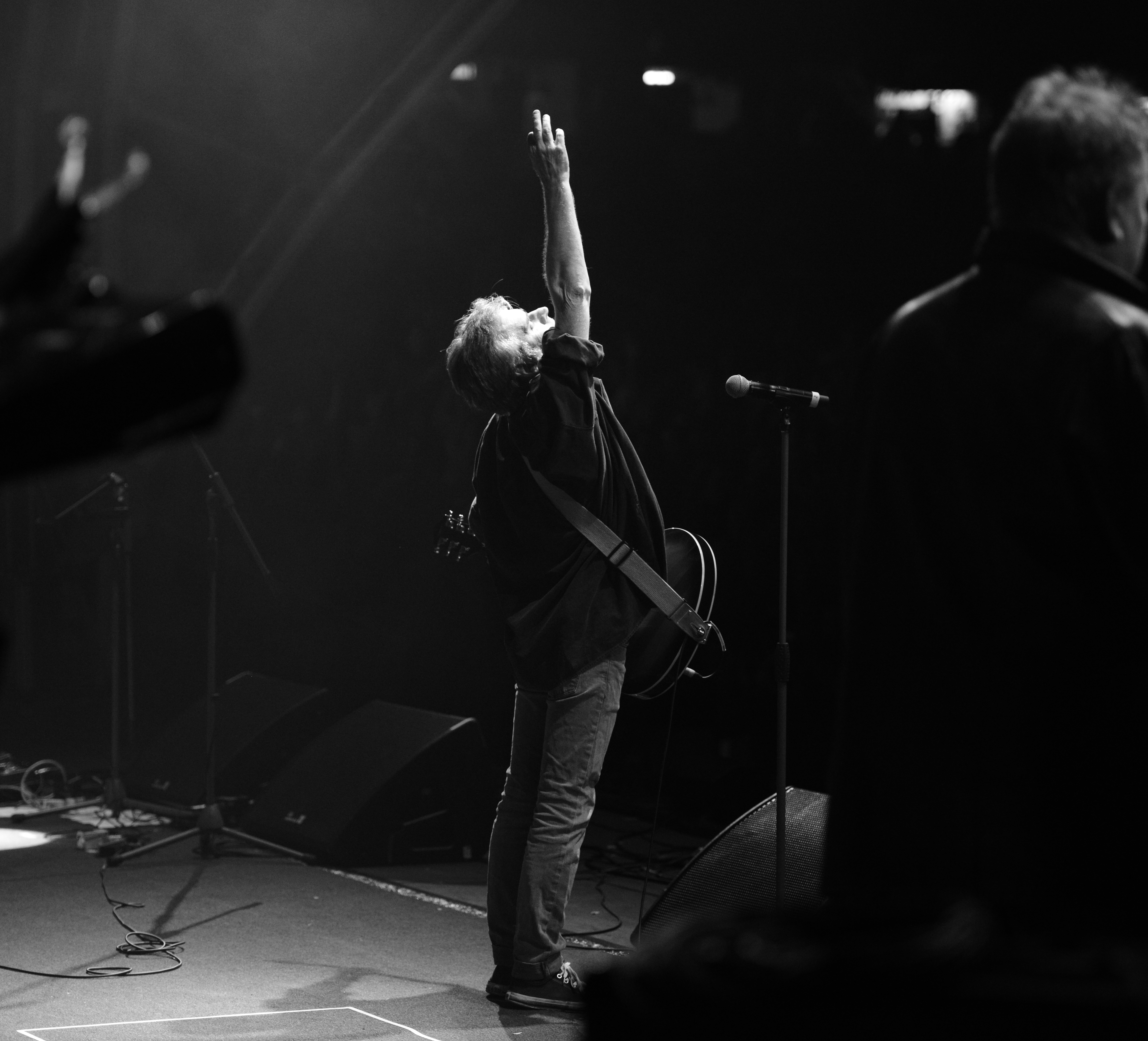 Alex Smith onstage with Moving Pictures, August 2015 in Perth Australia